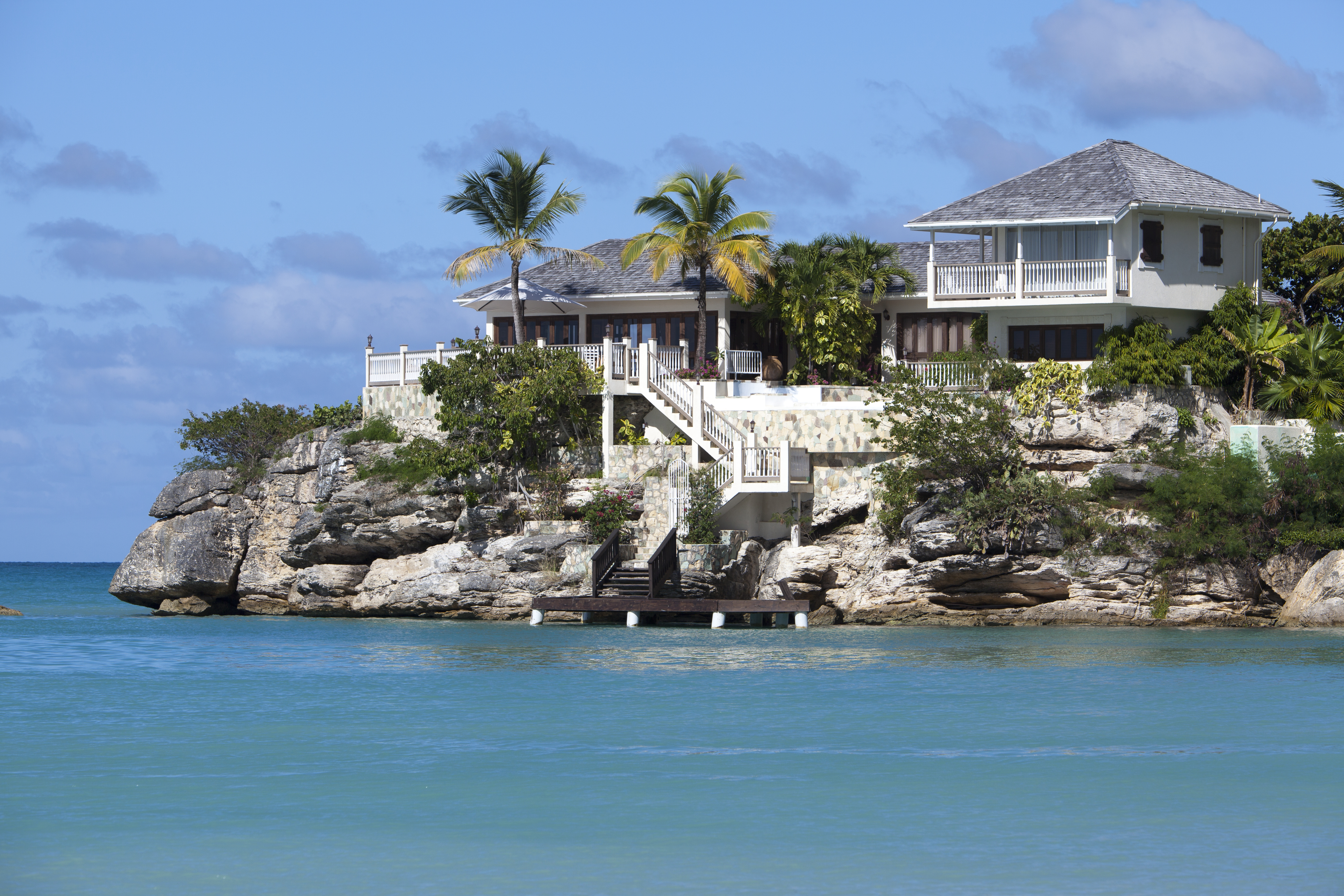 Pictures shows The View From Soldiers Bay to Rock Cottage